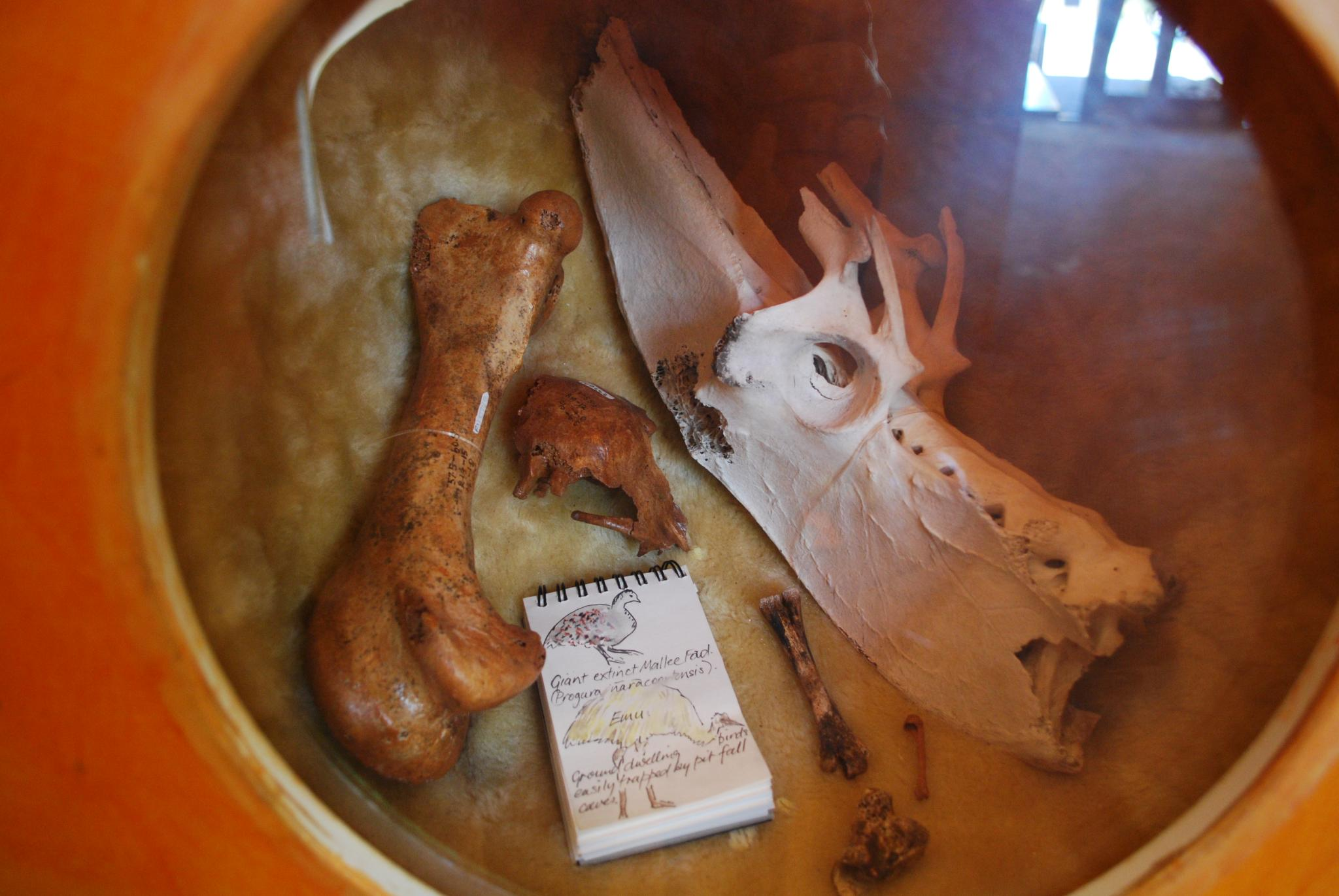 Naracoorte Caves National Park - wikipedia - Australian Fossil Mammal Site - Naracoorte - World Heritage - South Australia Both the Naracoorte and Riversleigh sites provide evidence separately of key stages in the evolution of the fauna of Australia - the world's most isolated continent. They are outstanding for the extreme diversity and the quality of preservation of their fossils and help us to understand the history of mammal lineages in modern Australia. The Naracoorte Fossil Mammal Site was inscribed on the World Heritage List in 1994. The Naracoorte Fossil Mammal Site was one of 15 World Heritage places included in the National Heritage List on 21 May 2007.